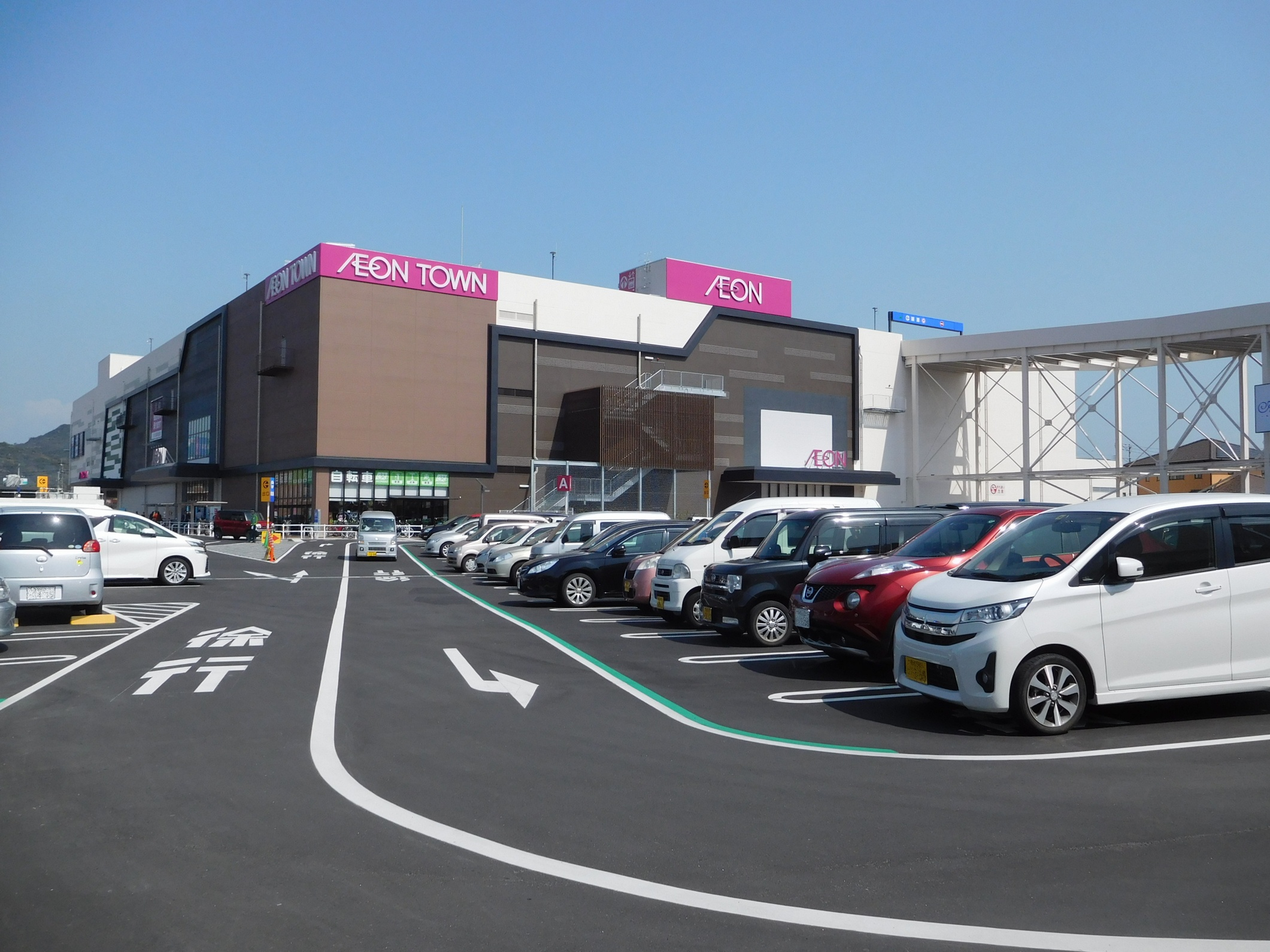 ÆON Town Aira - West Block (Aira City, Kagoshima, Japan)